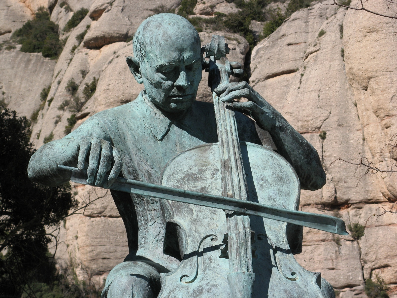 A centenary statue of Pau Casals at Montserrat, Spain. The inscription below it reads "Pau Casals, Centenari Del Seu Naixement, 1876-1976" (Pau Casal, Centenary Of His Birth, 1876-1976).